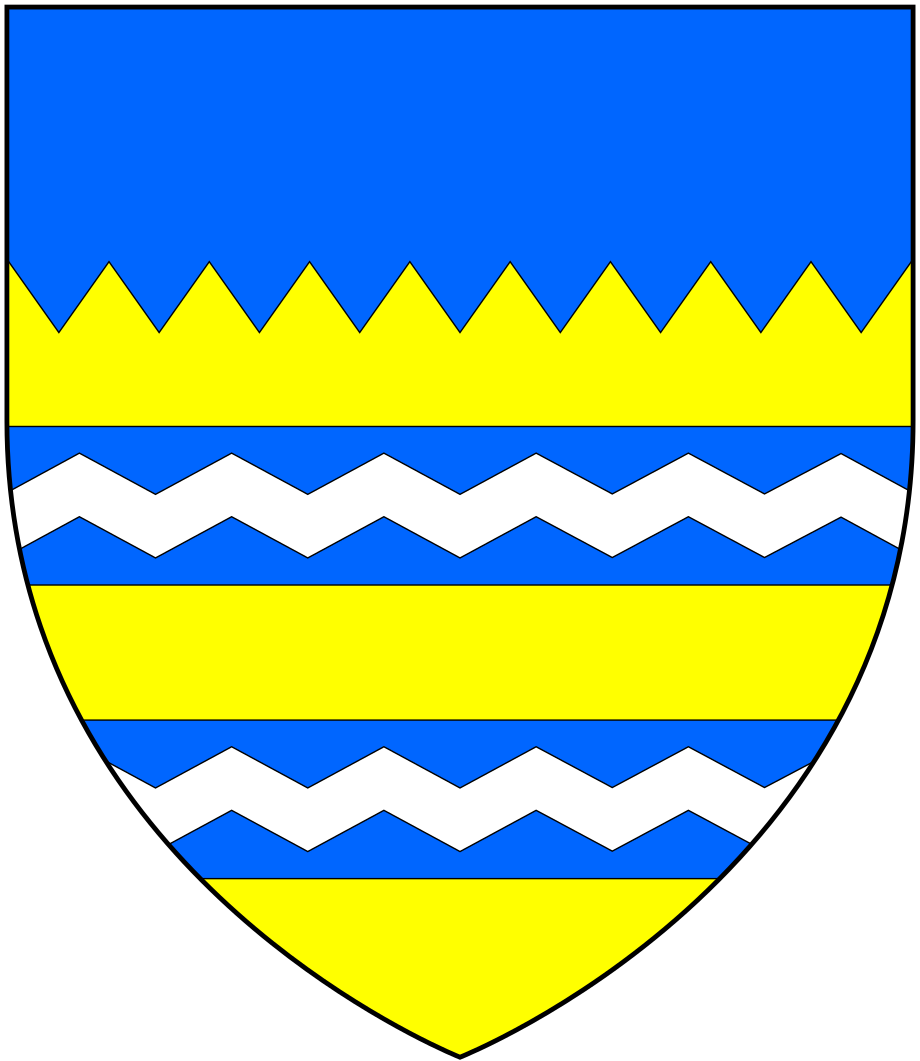 Arms of Sawbridge: Or, two bars azure each charged with a barrulet dancettée argent a chief indented of the second ( Burke's Genealogical and Heraldic History of the Landed Gentry, 15th Edition, ed. Pirie-Gordon, H., London, 1937, p.643, Sawbridge-Erle-Drax of Olantigh and Holnest)